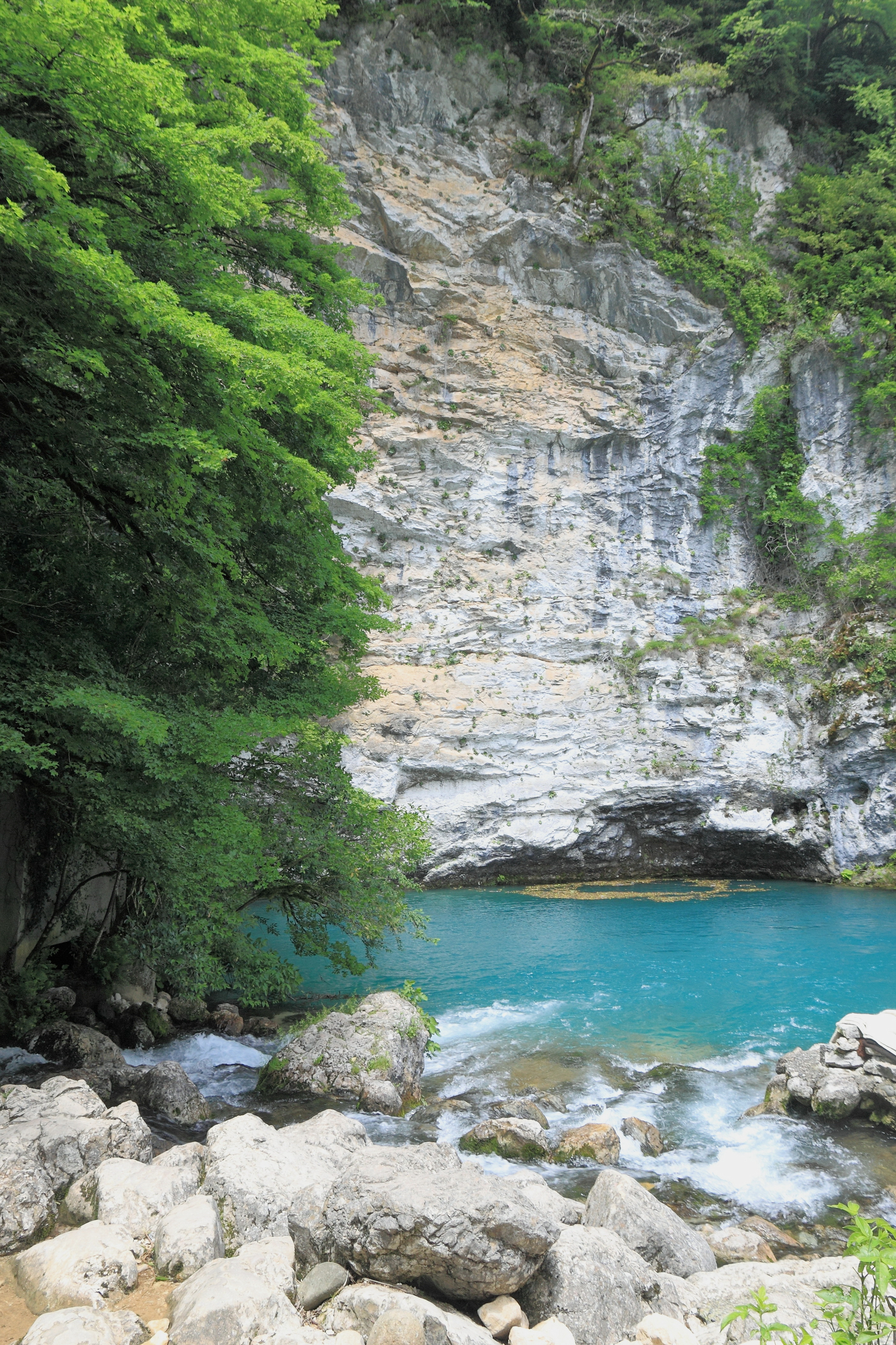 Blue Lake. The road towards the lake Ritsa, Abkhazia.